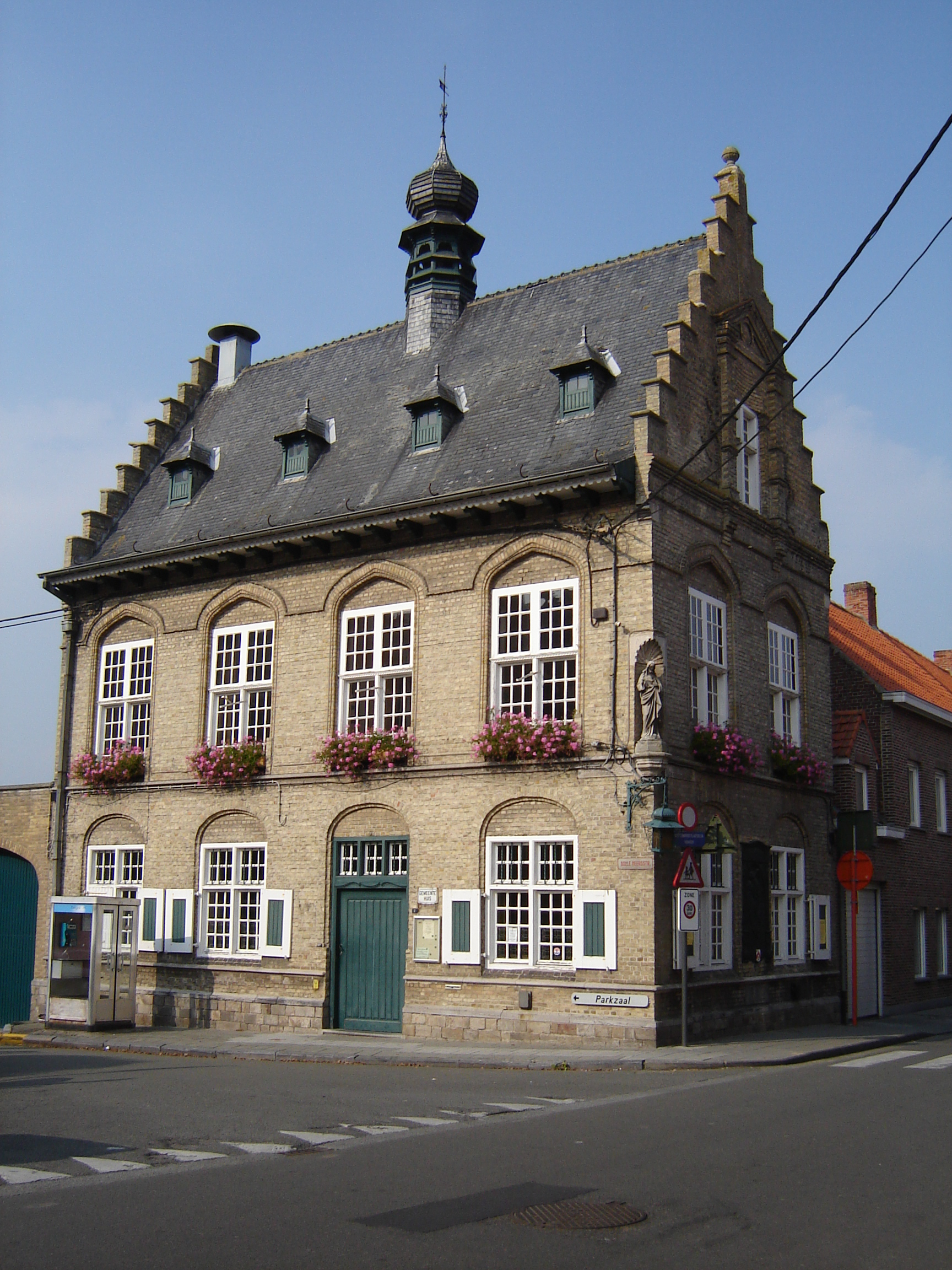 Former town hall of Elverdinge. Elverdinge, Ieper, West Flanders, Belgium